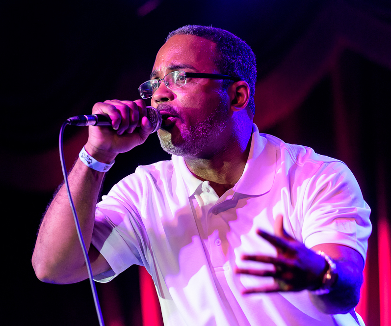 Large Professor performing at the Rahzel and Friends - Brooklyn Bowl in 2016.